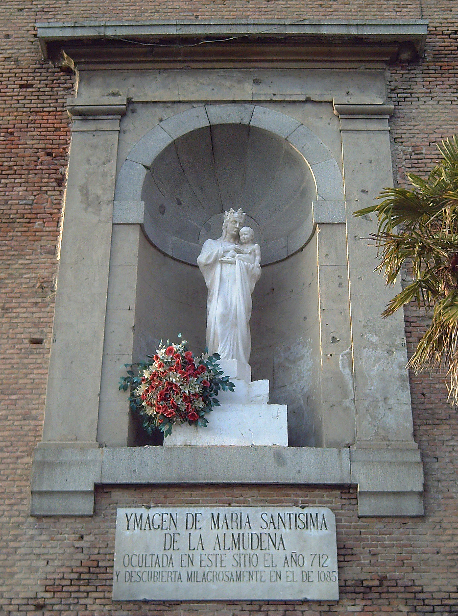 Virgen de la Almudena (Virgin of Almudena). Sculpted in limestone by Fernando Valero to replace the previous one destroyed during the Spanish Civil War (1936–1939). It was inaugurated on November 9th of 1941 at the rear wall of the Catedral de la Almudena in Madrid (Spain). Vaulted niche and plaque were made by the city council in 1831. In 2007, due to the construction works of the Museum of Royal Collections, the sculpture was moved, and the wall demolished.